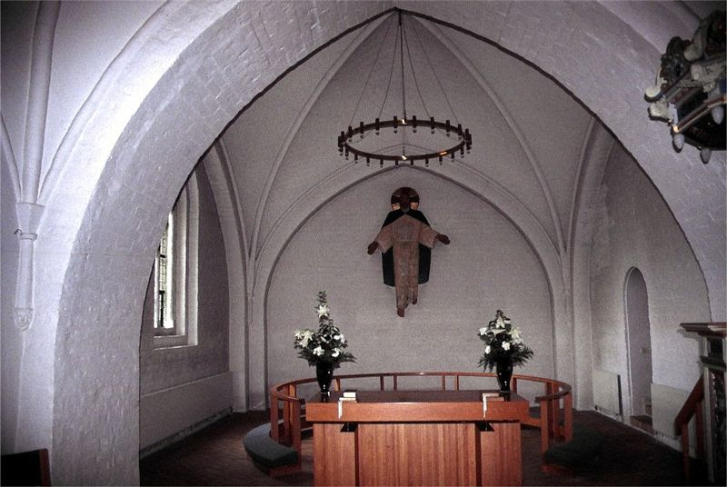 Haslev Kirke (church) in Faxe Kommune